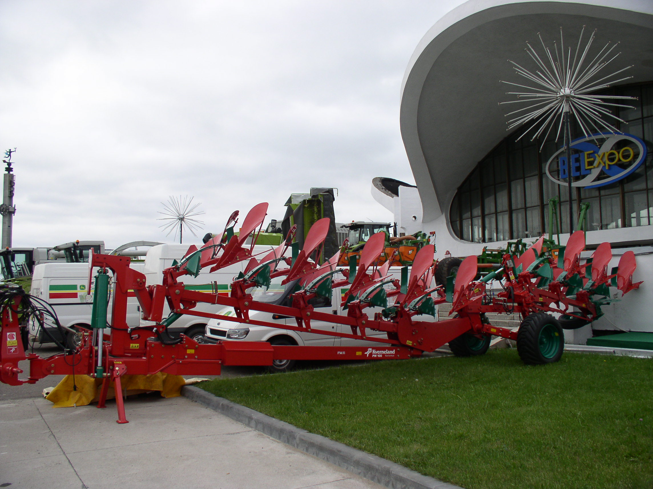 Kverneland PW 100 semi-mounted plough at Agriculture Expo in Minsk, Belarus.